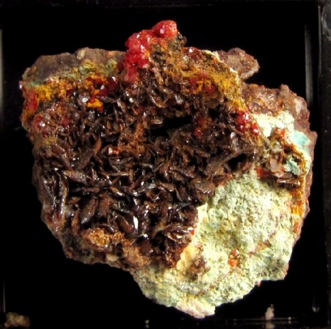 Iranite, Wulfenite Locality: Santa Ana Mine (Chapacase Mine), Tocopilla District, Tocopilla Province, Antofagasta Region, Chile Size: 2.3 cm x 2.1 cm x 1.7 cm Iranite is a very rare lead, copper chromate silicate and this fine combination thumbnail is from a very small abandoned lead-silver mine in Chile. Lustrous, brown iranite blades richly cover the matrix and are strikingly complemented by a beautiful cluster of riveting, cherry-red chromian wulfenite crystals at the top of the piece. This specimen was collected by Terry Szenics (Szenicsite), a very well-known South American field collector.